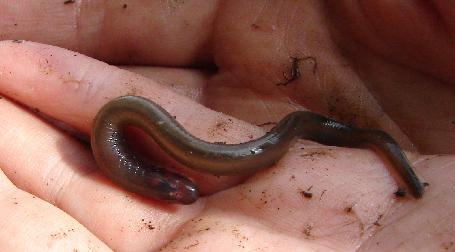 The larva of the Ukrainian brook lamprey (Eudontomyzon mariae) from the Ubort River, Ukraine